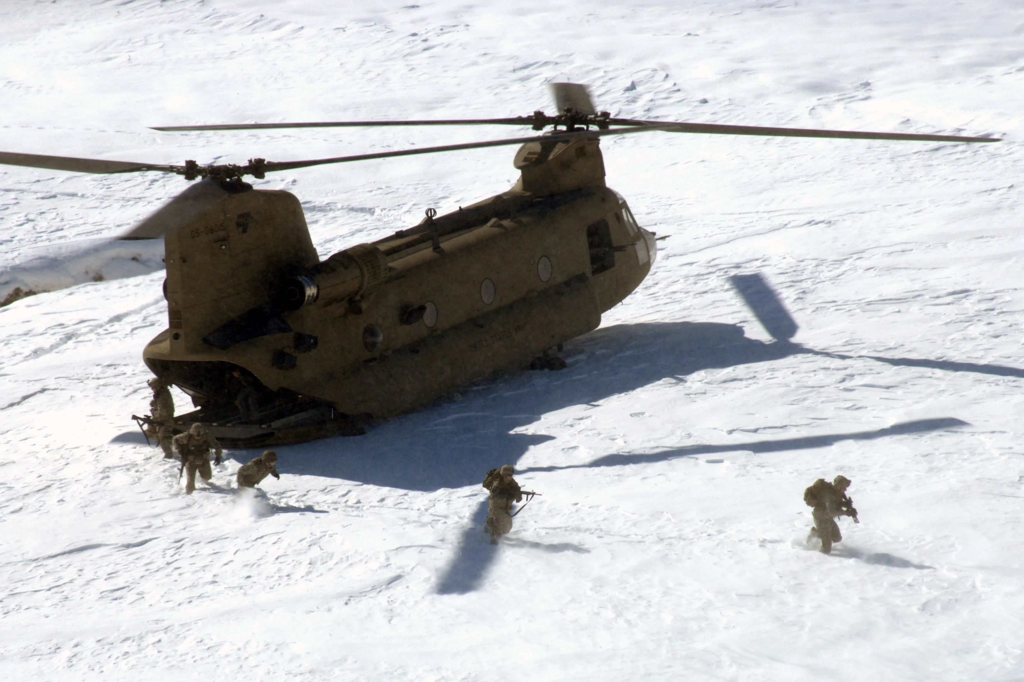 U.S. Soldiers from Alpha Company, 1st Platoon, Personnel Security Detail, 101st Airborne Division exit a CH-47 Chinook helicopter to provide security in Bagram, Afghanistan, Feb. 15, 2009. (U.S. Army photo by Sgt. Prentice C. Martin-Bowen/Released)